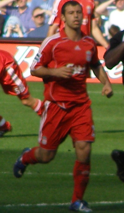 Mascherano playing for Liverpool F.C.